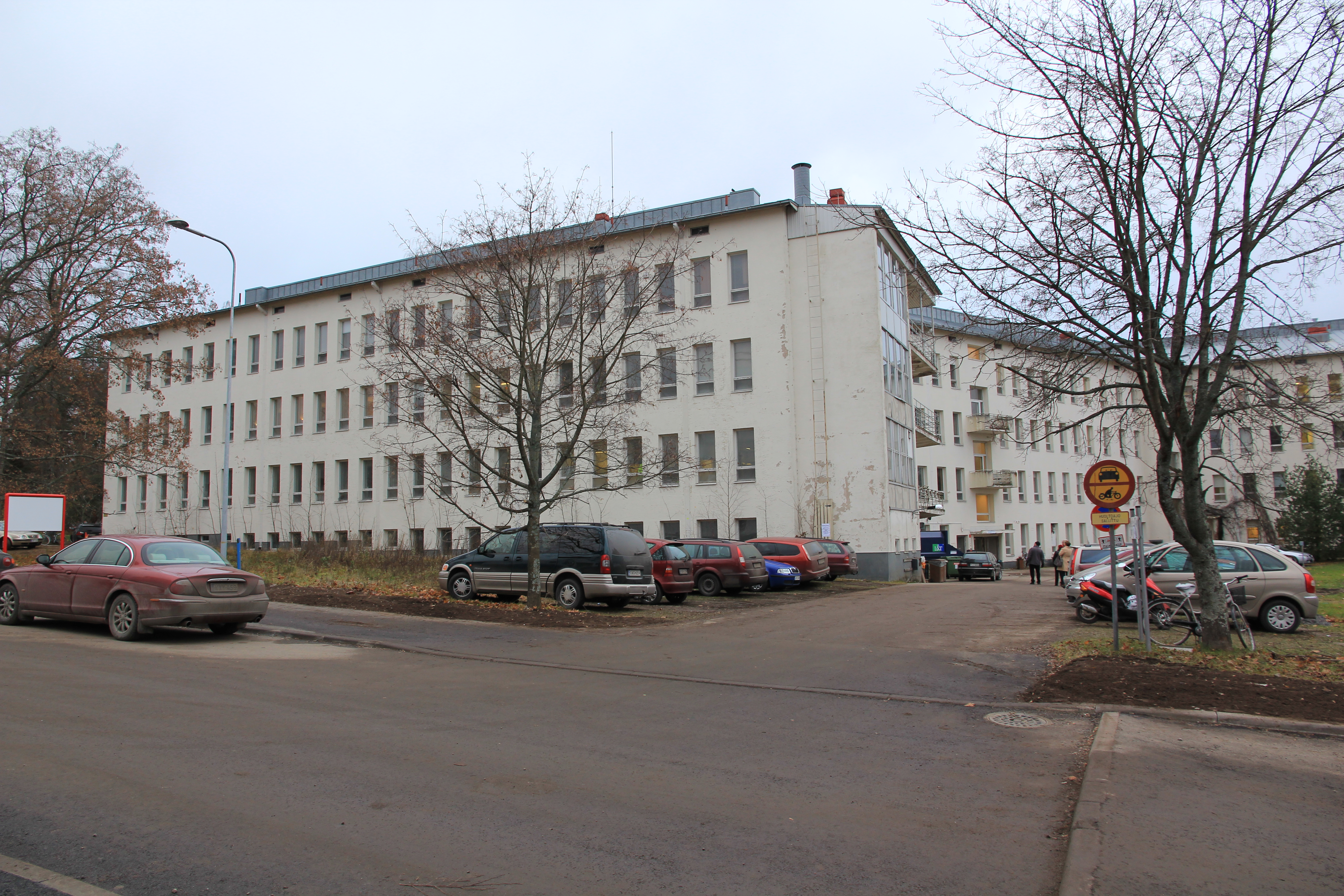 One of the former Rauha mental institute buildings "Setälä".